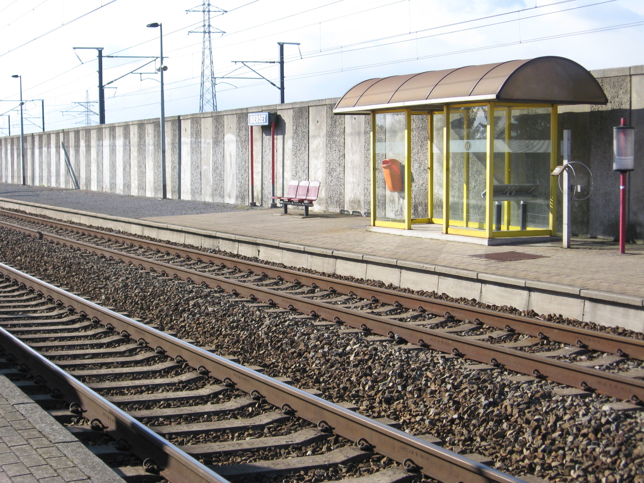 Train station of Bierset, Grâce-Hollogne, Liège, Belgium